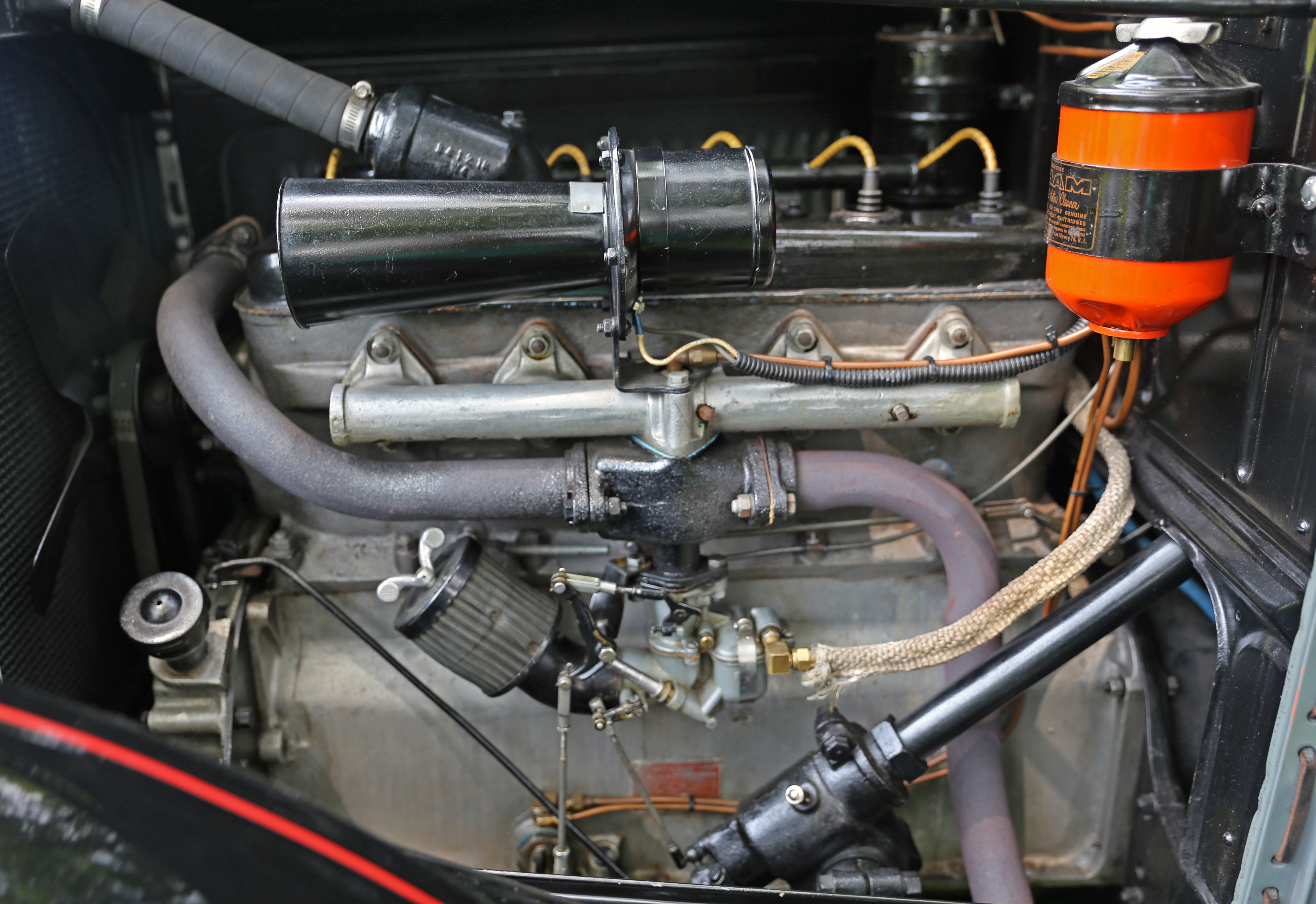 The 53hp, 178 ci sleeve-valve inline-six in a 1926 Willys-Knight Series 70 (Light Six) sedan. 2.94 inch bore and 4.375 inch stroke (74.6 x 111.1 mm, 2915 cc).